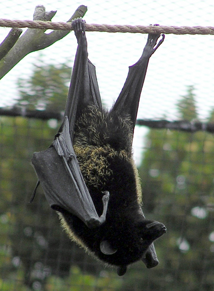 Livingstone’s Fruit Bat Pteropus livingstonii in Bristol Zoo, Bristol, England. An alternative name is Livingstone's Flying Fox. Lives in the Comoro Islands near Madagascar in the Indian Ocean. Eats fruit, leaves and flowers. Wingspan 1.4 metres.